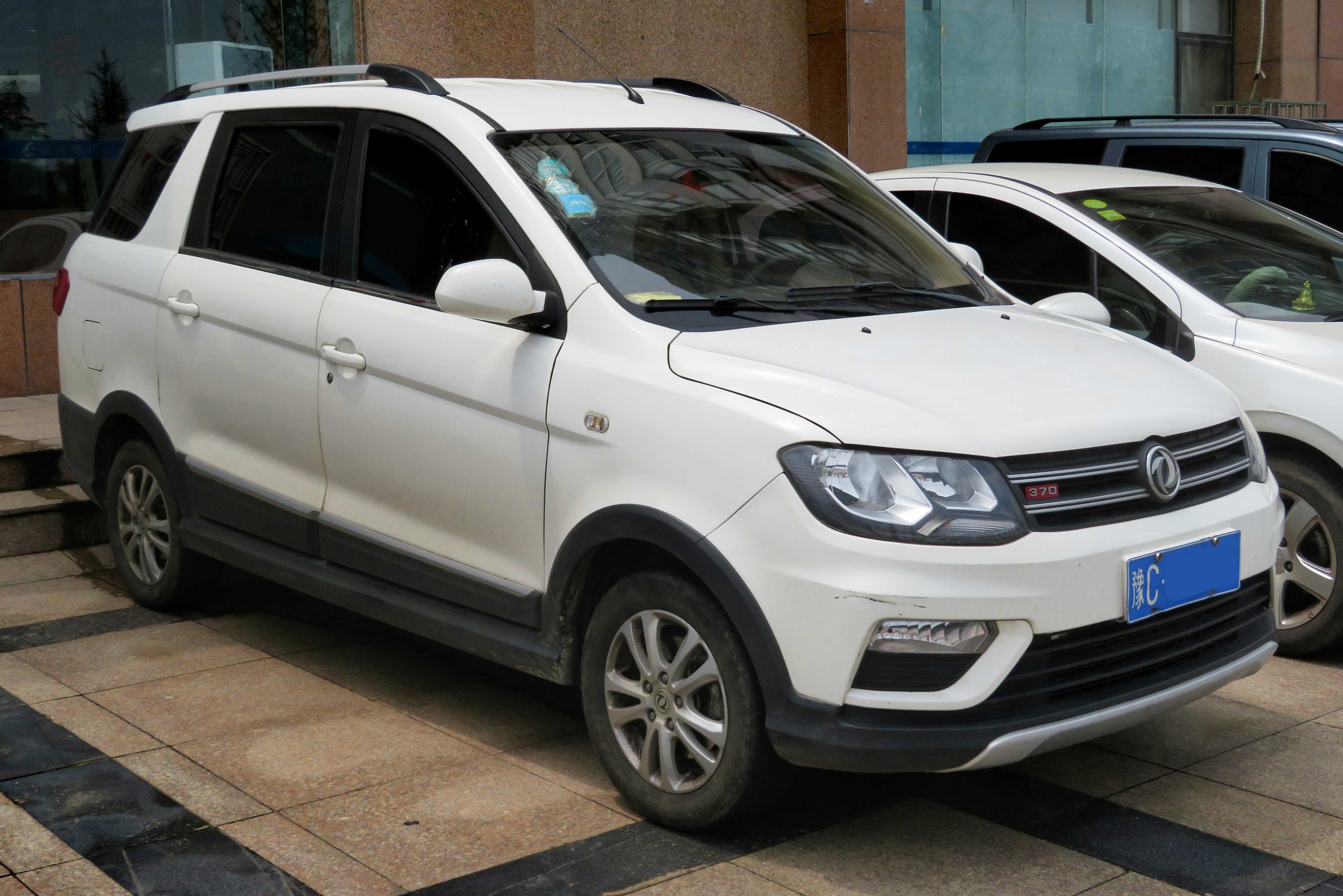 A 2017 Dongfeng-Fengguang 370 photographed in Luolong District, Luoyang, Henan province, China